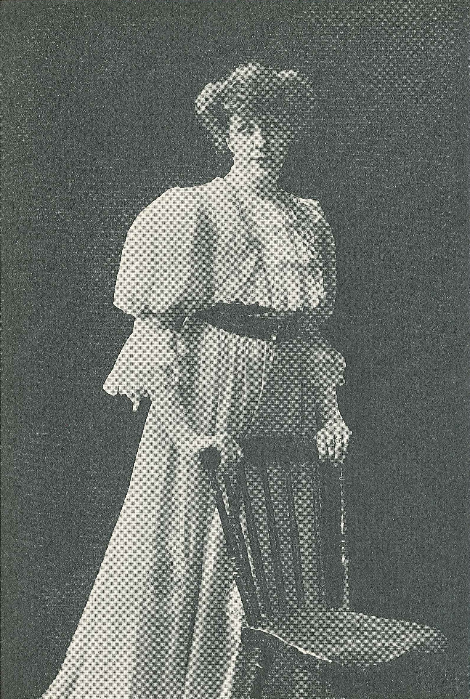 Swedish actress Manda Björling (1876-1960) as "Julie" in August Strindberg's play Miss Julie.